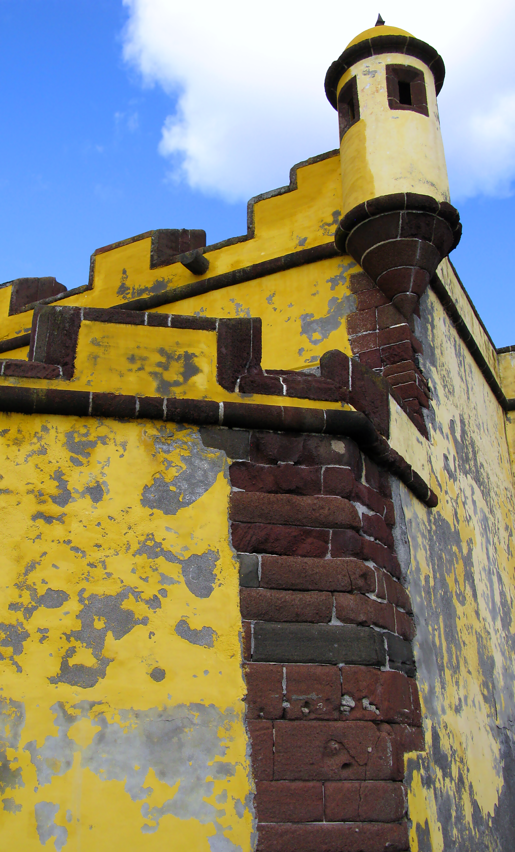 São Tiago fortress in Funchal, Madeira